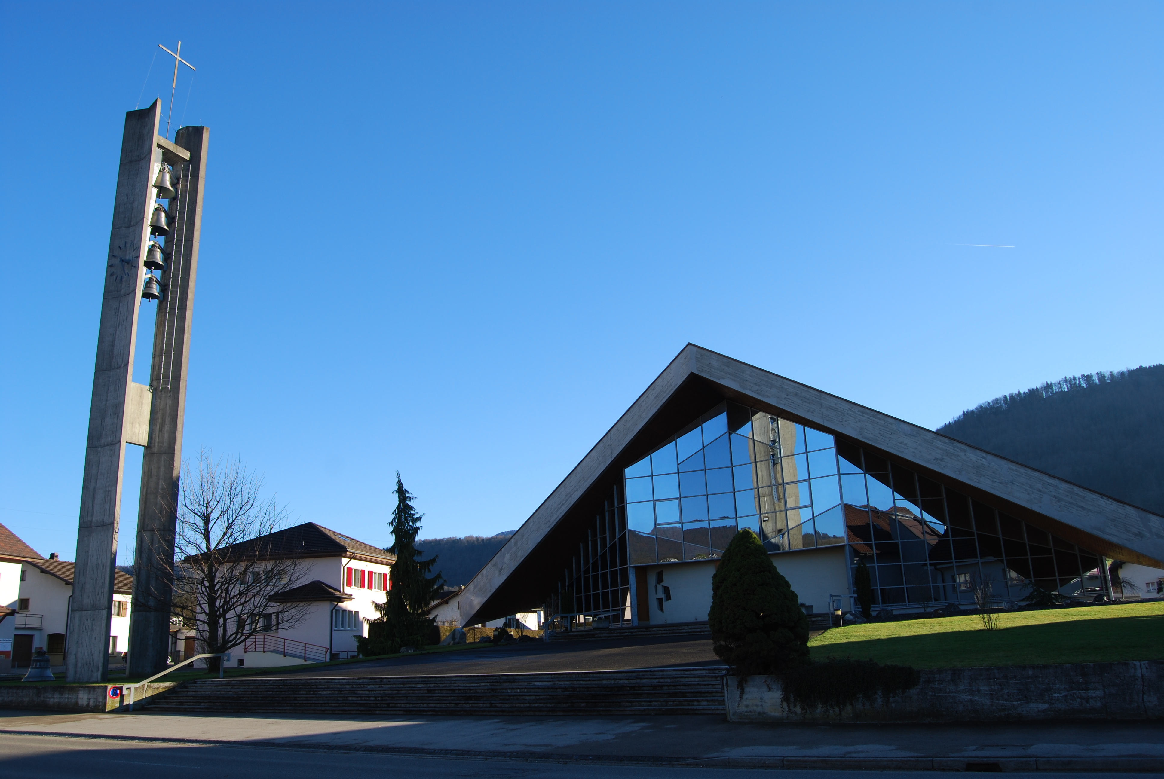 Church of Vicques, canton of Jura, Switzerland